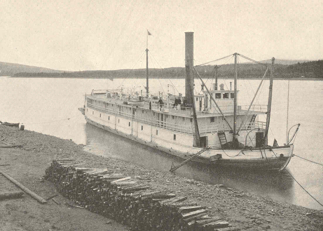 U. S. Revenue Steamer Nunivak at Rampart Subject: Nunivak (Steamer), Steamboats, Rampart (Alaska) Geographic Subject: United States--Alaska--Rampart Tag: Vessels